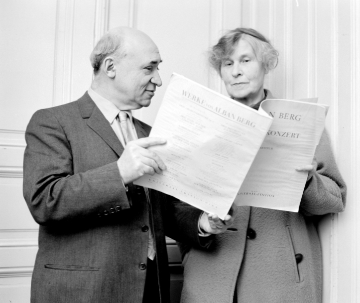 Louis Krasner (1903–1995) and Helene Berg (1885–1976), widow of the composer Alban Berg, with the score of the Violin Concerto.